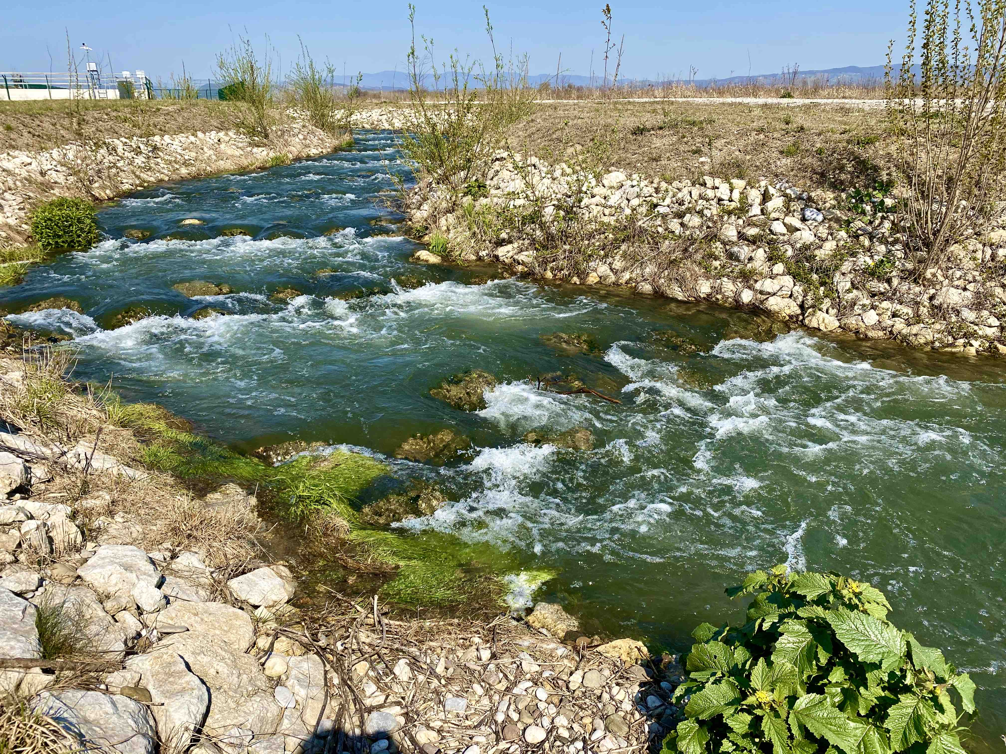 Power station Brežice's passage for water organisms